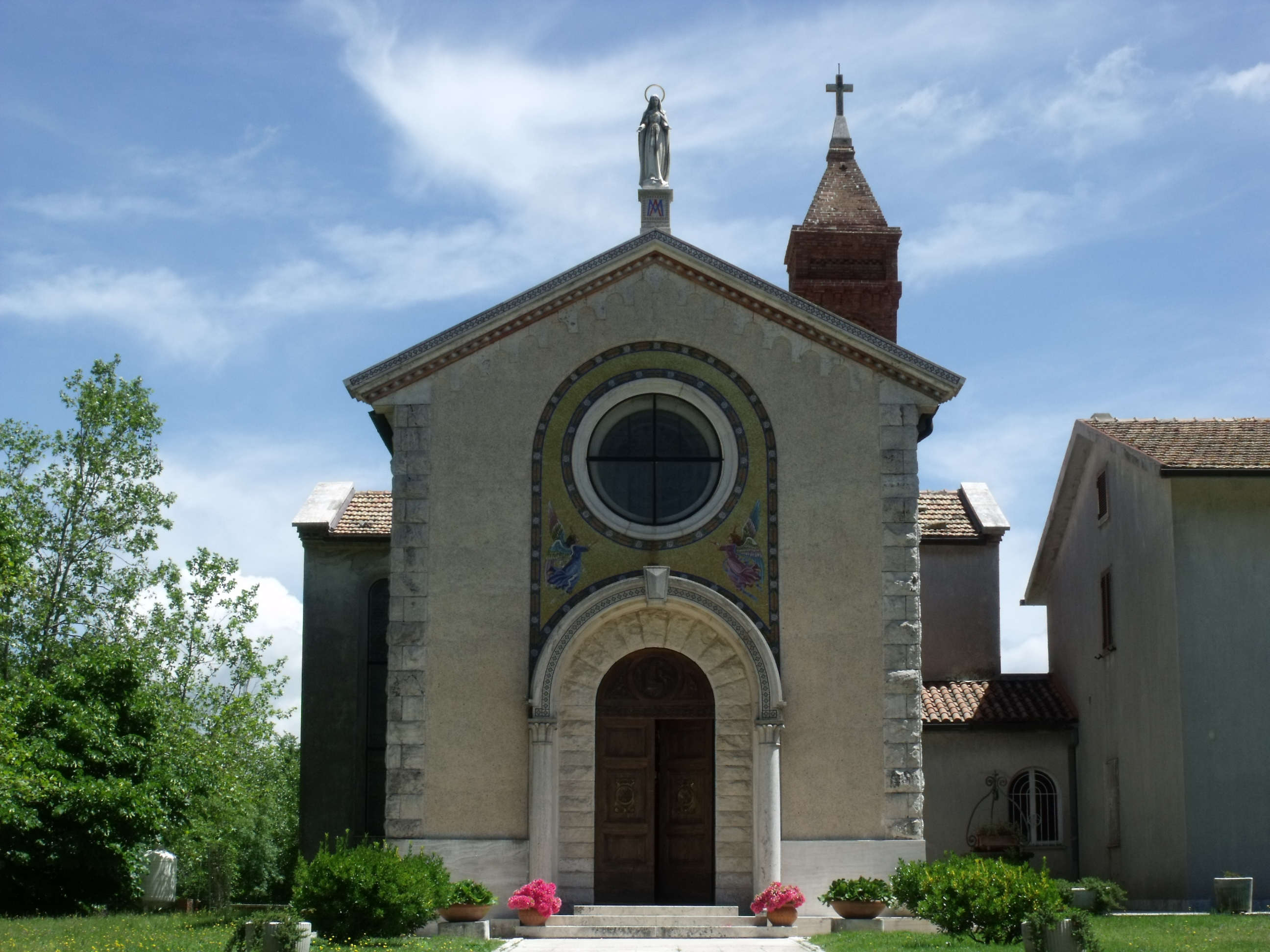 Church Santissima Annunziata in Cellena, hamlet of Semproniano, Maremma, Monte Amiata, Province of Grosseto, Tuscany, Italy